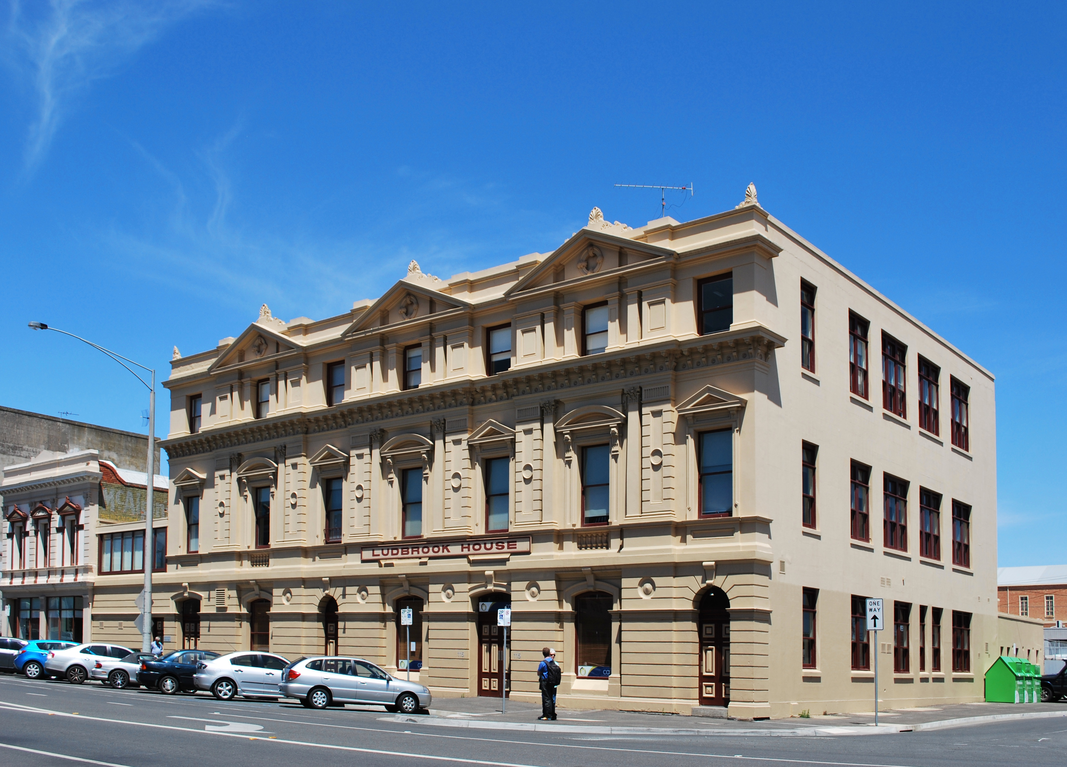 Ludbrook House at Ballarat, Australia